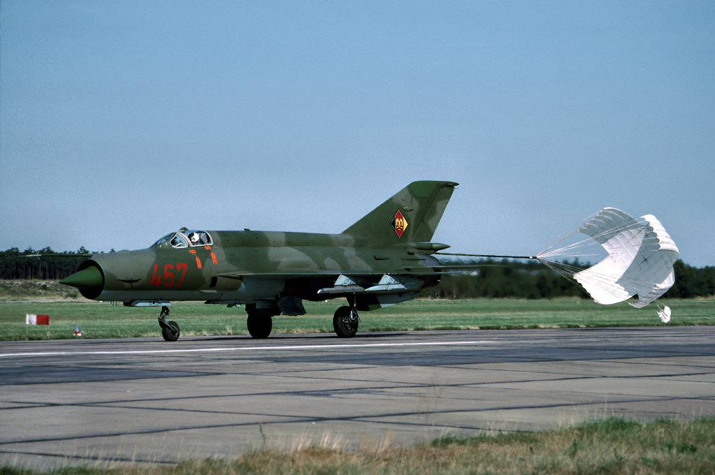 MiG-21MF at Holzdorf, East Germany, in 1990